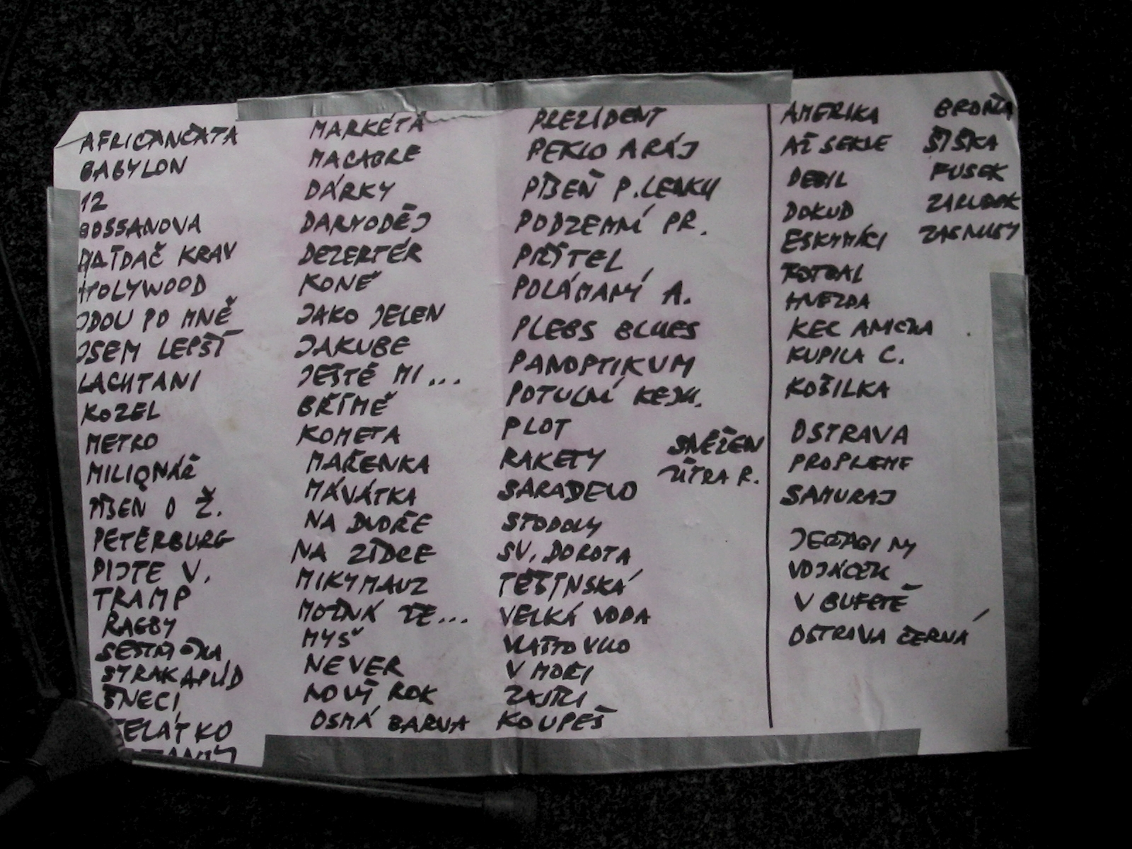 Original handwriting of Jaromír Nohavica, a list of (potential) songs to play before his concert in Poznań, Poland. Also known as a playlist...